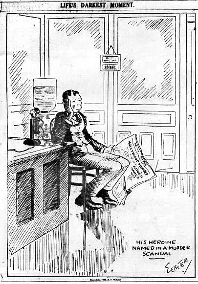 Harold Webster cartoon, drawn after the murder of William Desmond Taylor